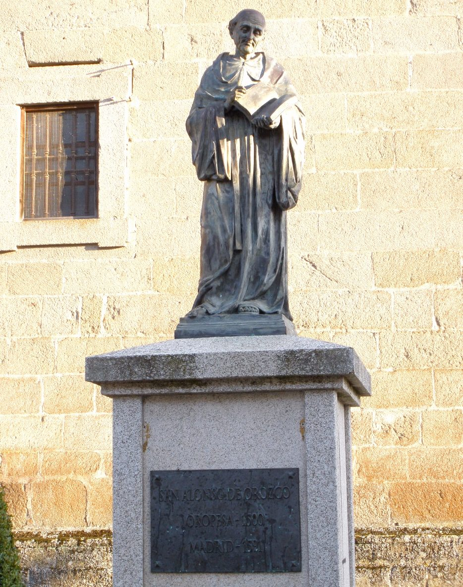 Monumento a San Alonso de Orozco, en Oropesa (Toledo, España)